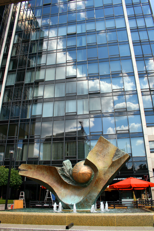 "Dedicated to Edward Isaac Richmond, architect 1908 - 1982. A kind man who shared his love of beauty." in Toronto/Canada